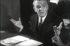 Decision Board Trial ("Spruchkammer") Munich, Germany: Former Bund leader Fritz Kuhn. Still from "March of Time" -outtakes - Story RG-60.2989, Tape 2383